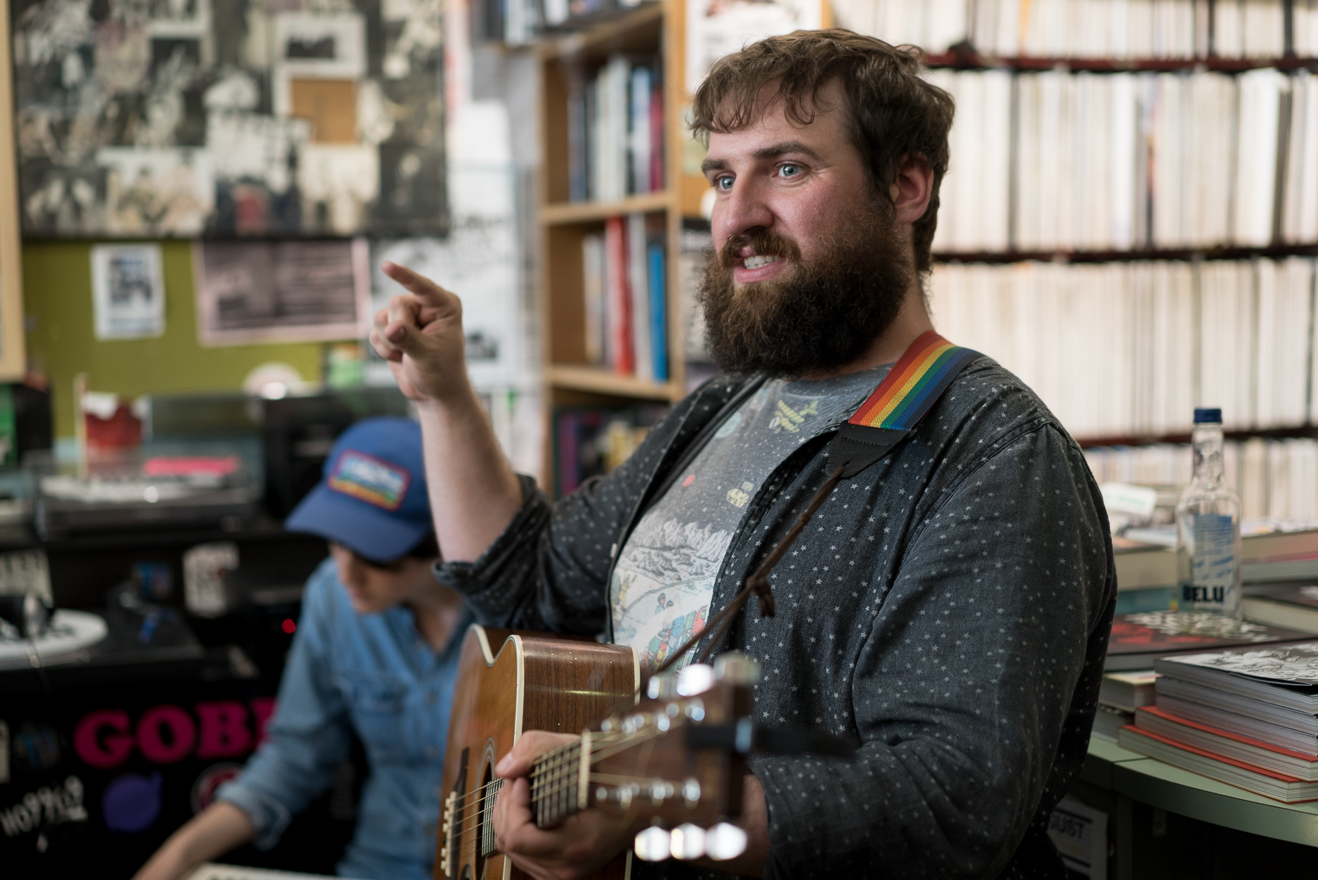 The Pictish Trail